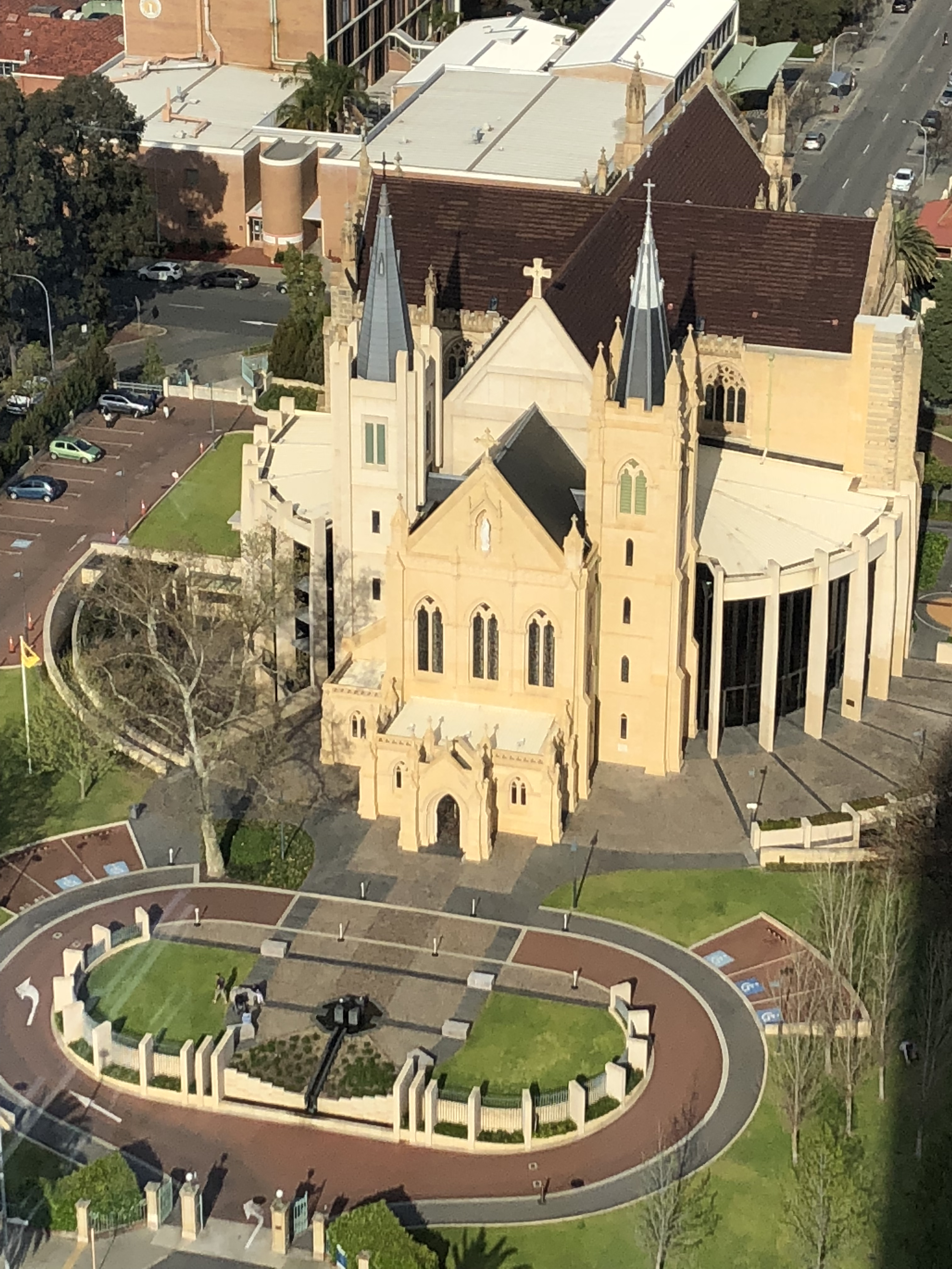 An aerial view of St Mary's Roman Catholic Cathedral, Perth